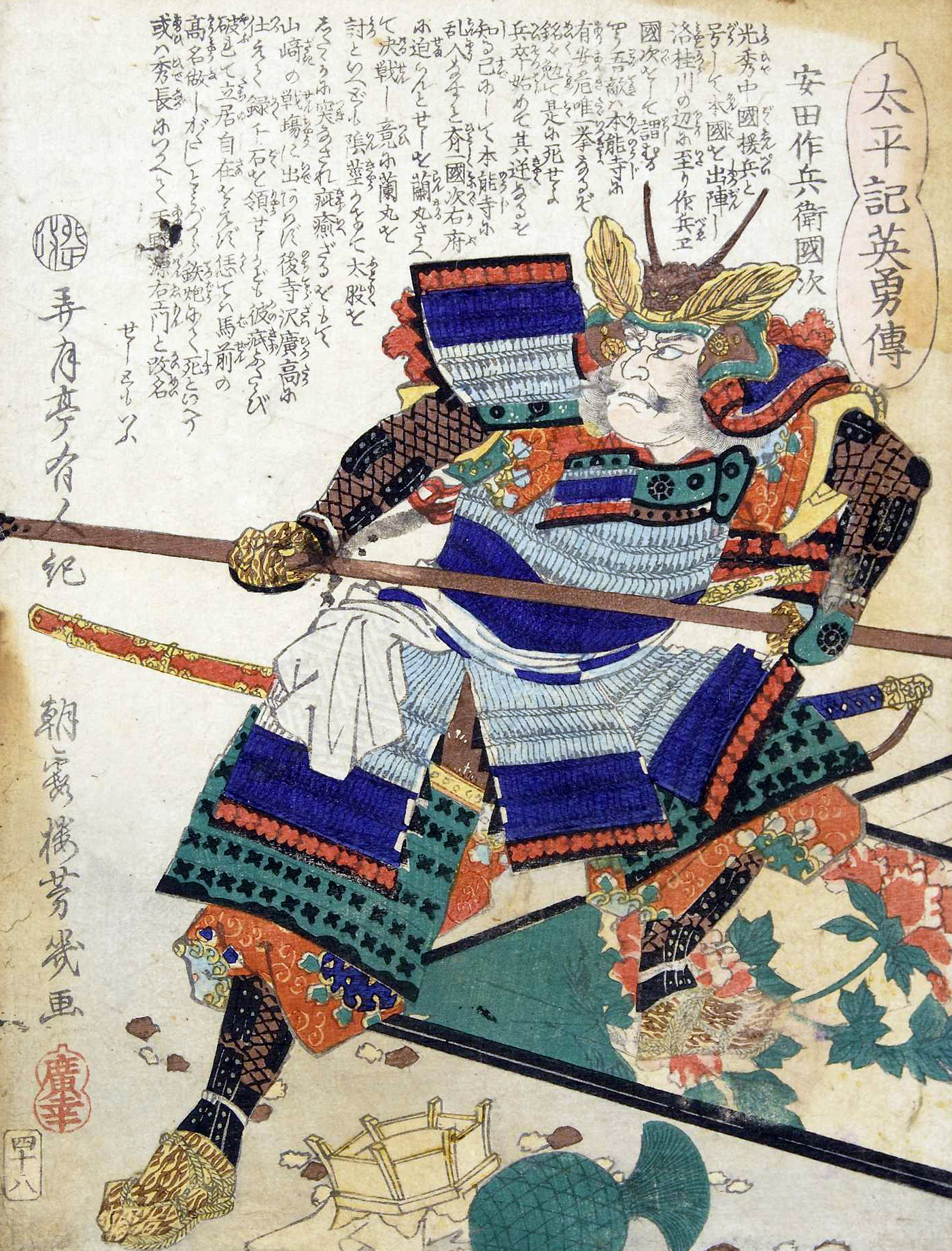 Ukiyo-e of Yasuda Kunitsugu (1556- June 2 or July 16, 1597)